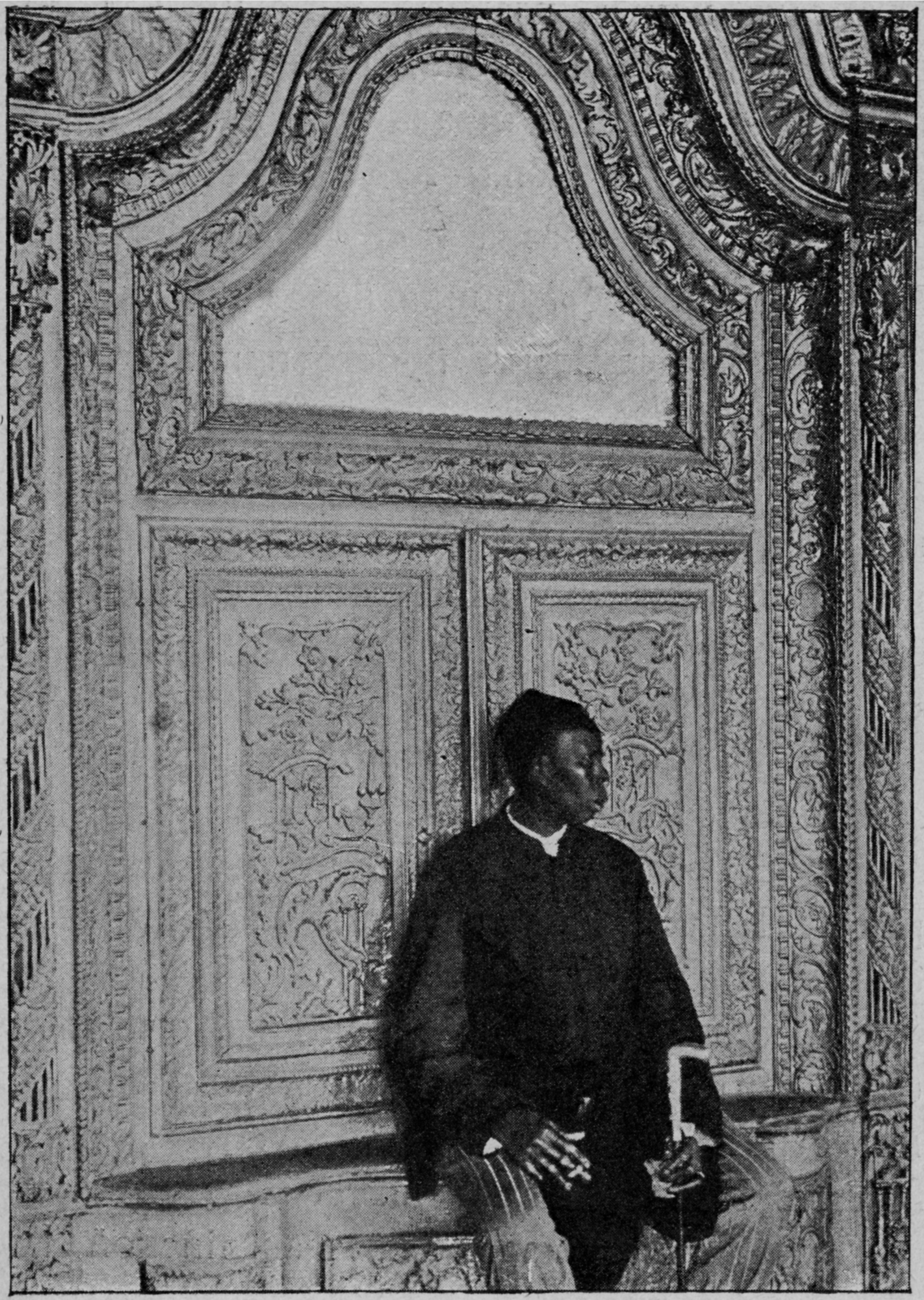 Eunuch near door of sultan's harem